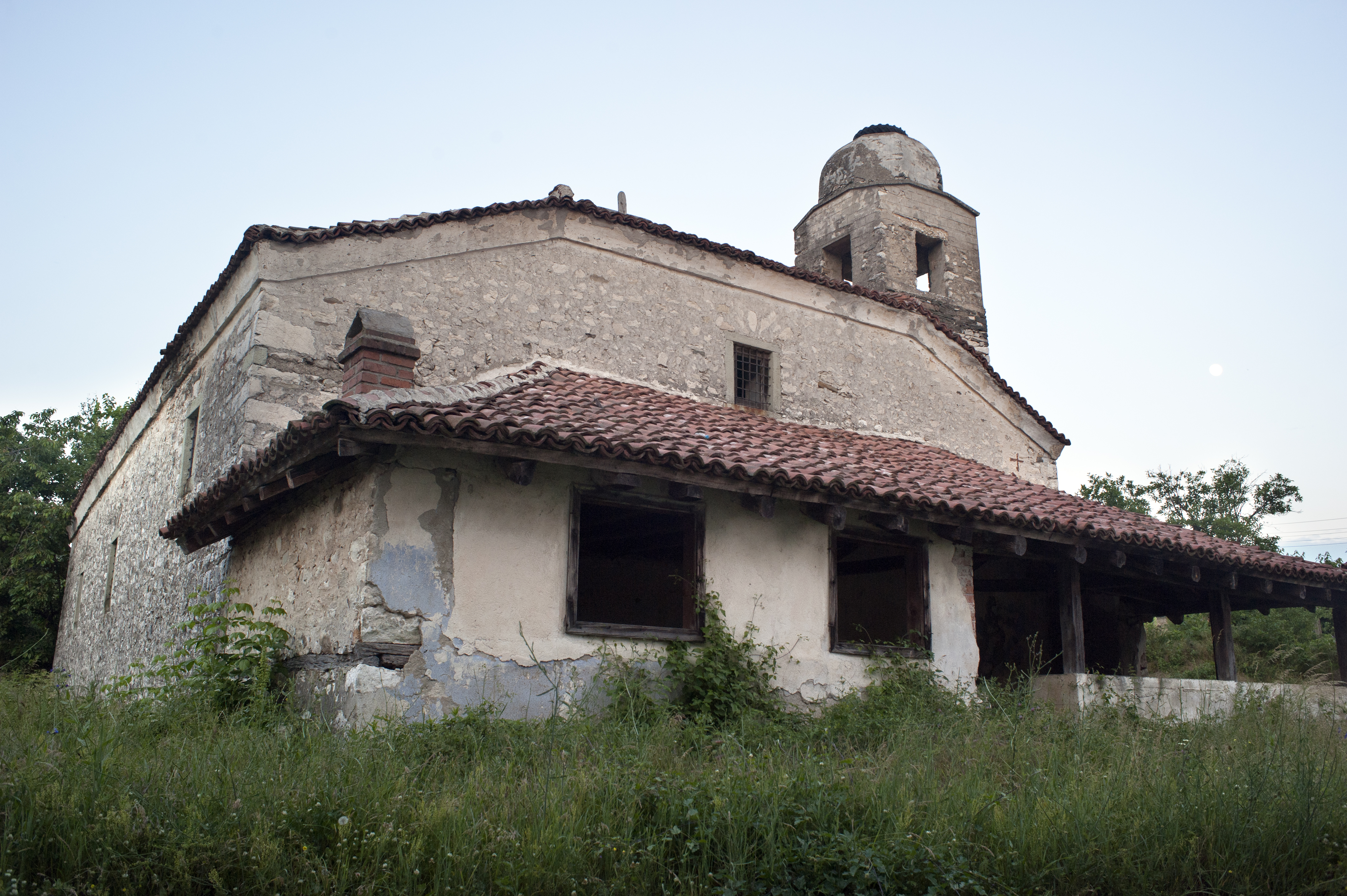 Svet Elias (1870) - Avren (Kardzhali province), Bulgaria.